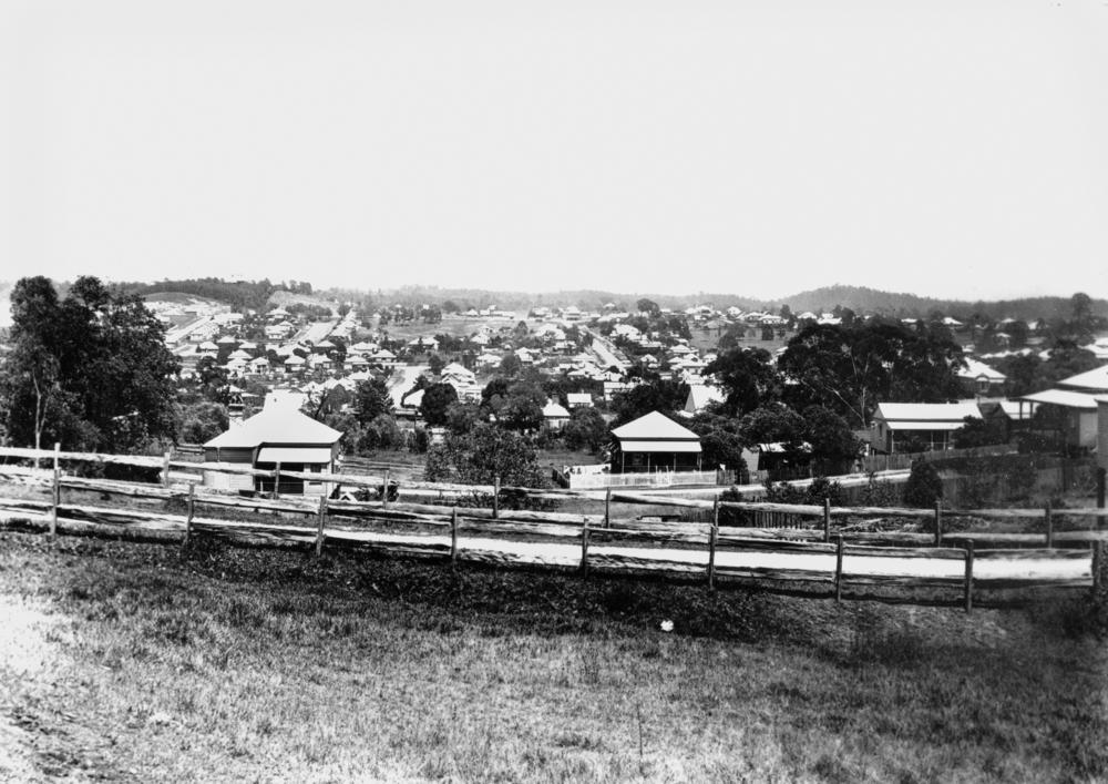 View from Franz Road over the Lutwyche suburb, ca. 1900